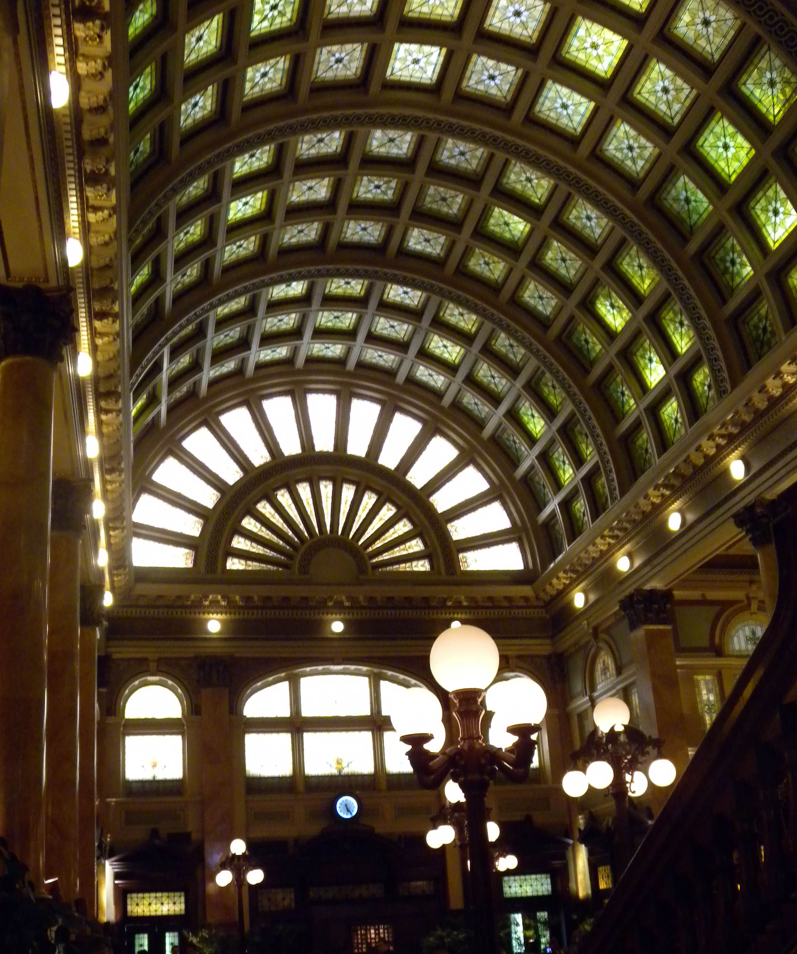 Looking up and west inside former passenger depot of Pittsburgh and Lake Erie Railroad, now Grand Concourse Restaurant in Station Plaza on the left bank of the Monongahela shortly before dusk.